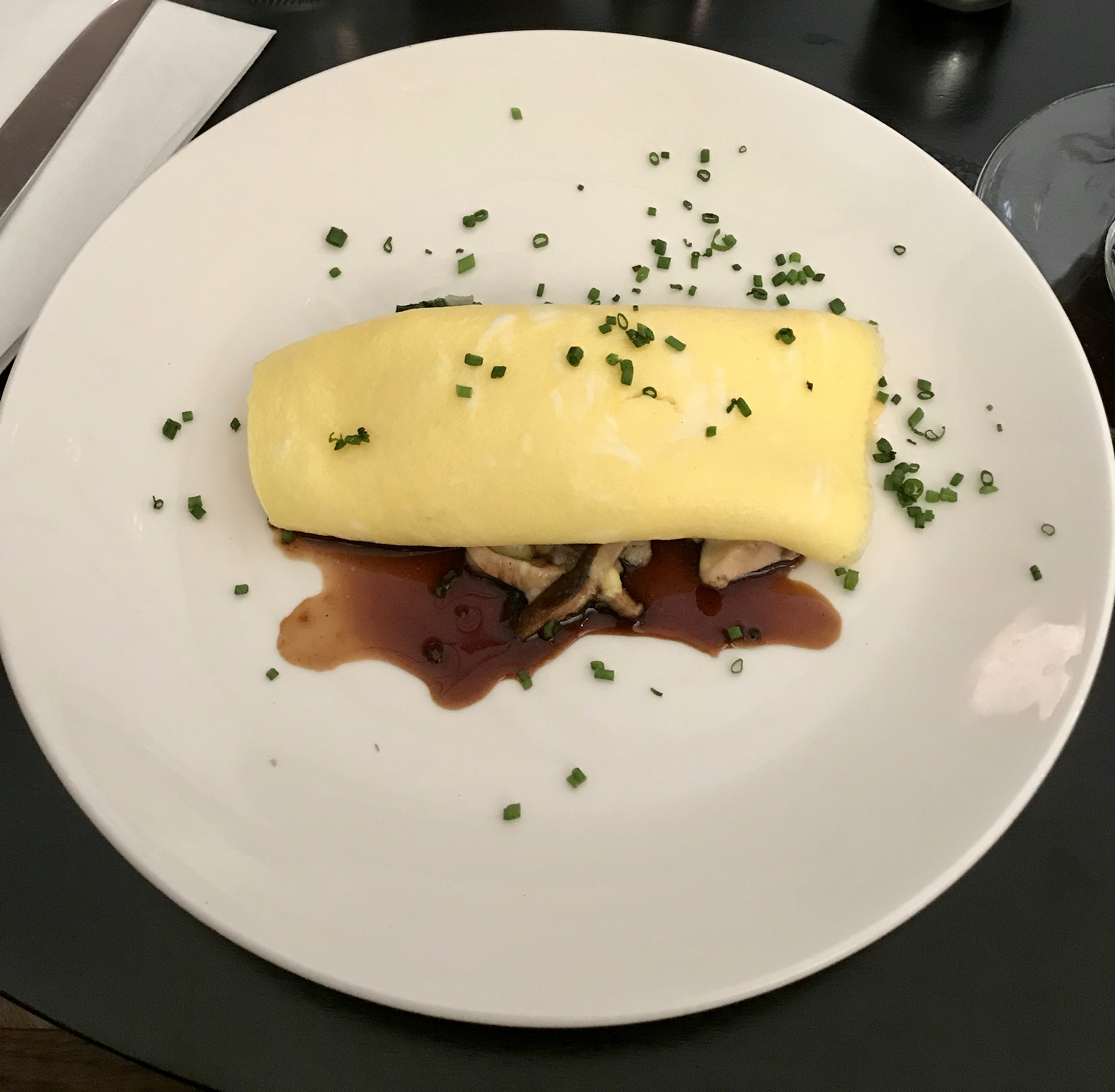 Omelet with herbs and mushrooms. A perfectly cooked omelet or omelette has no browning.